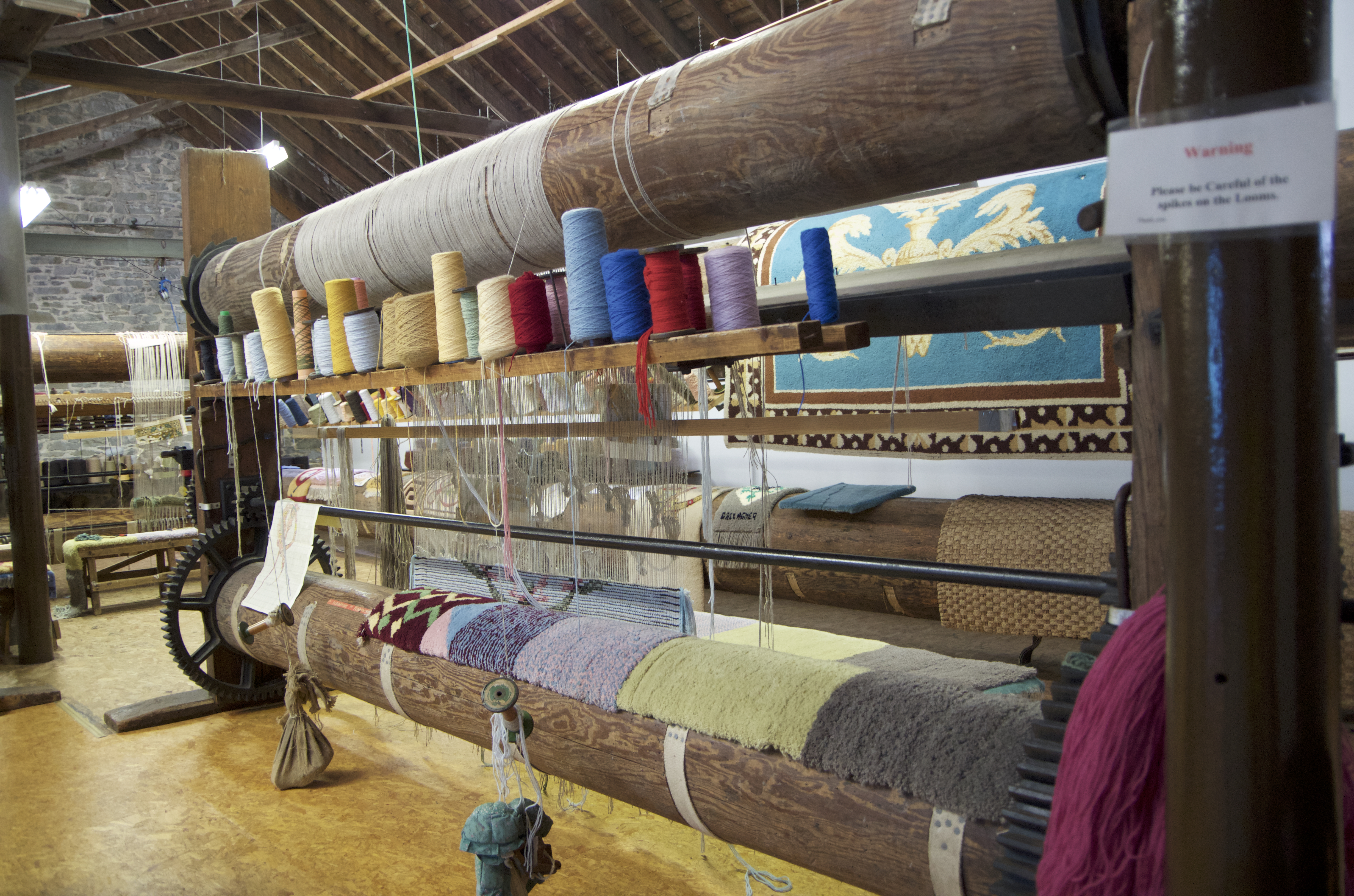 Killybegs International Carpet Making & Fishing Centre is situated within what was once the famous Killybegs Carpet Factory. Donegal Carpets is more of a museum now. Only volunteer weavers use its fabulous display of looms. I loved it here!